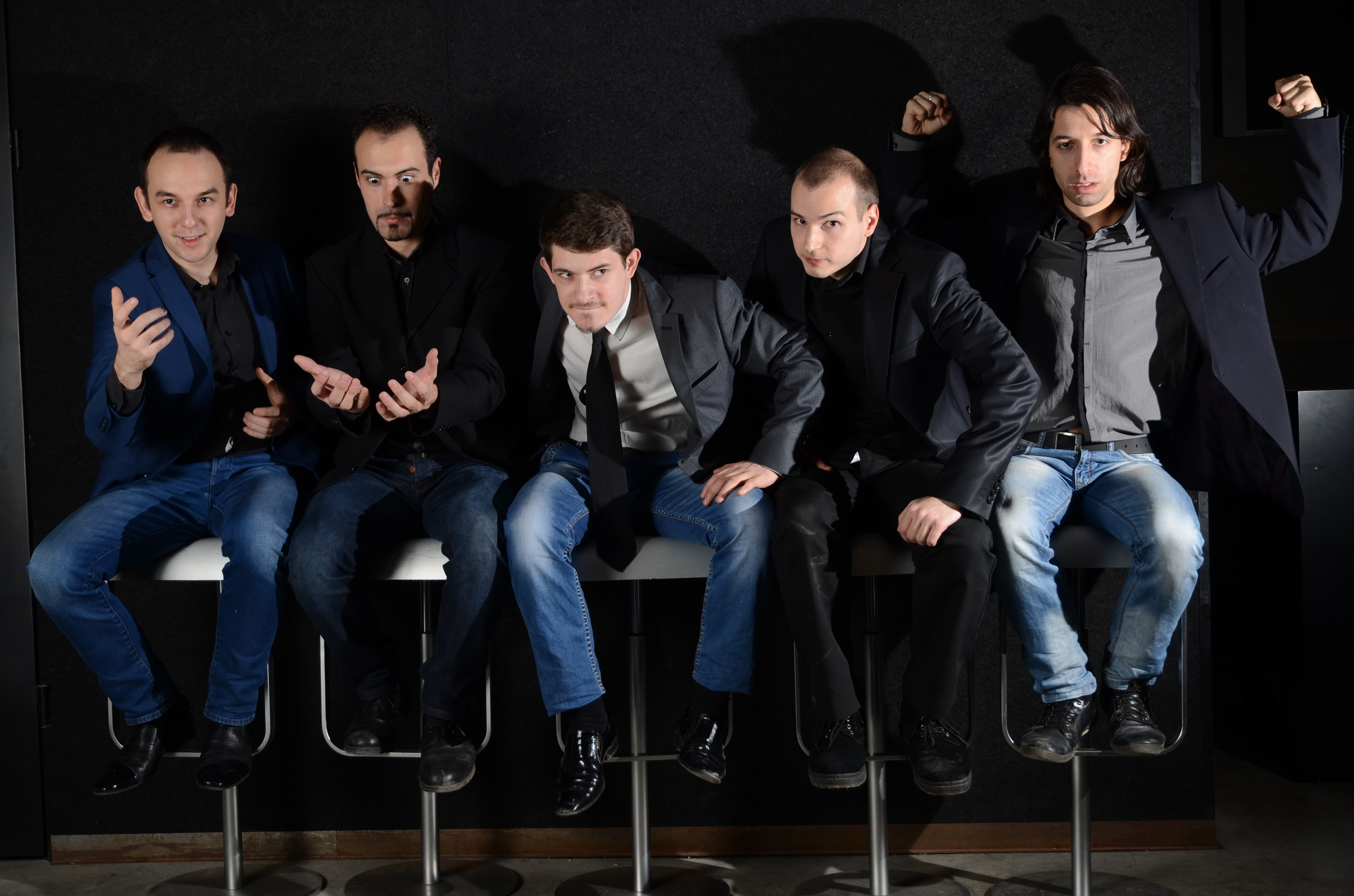 Improduce Me Theater at Yalta club Art Room